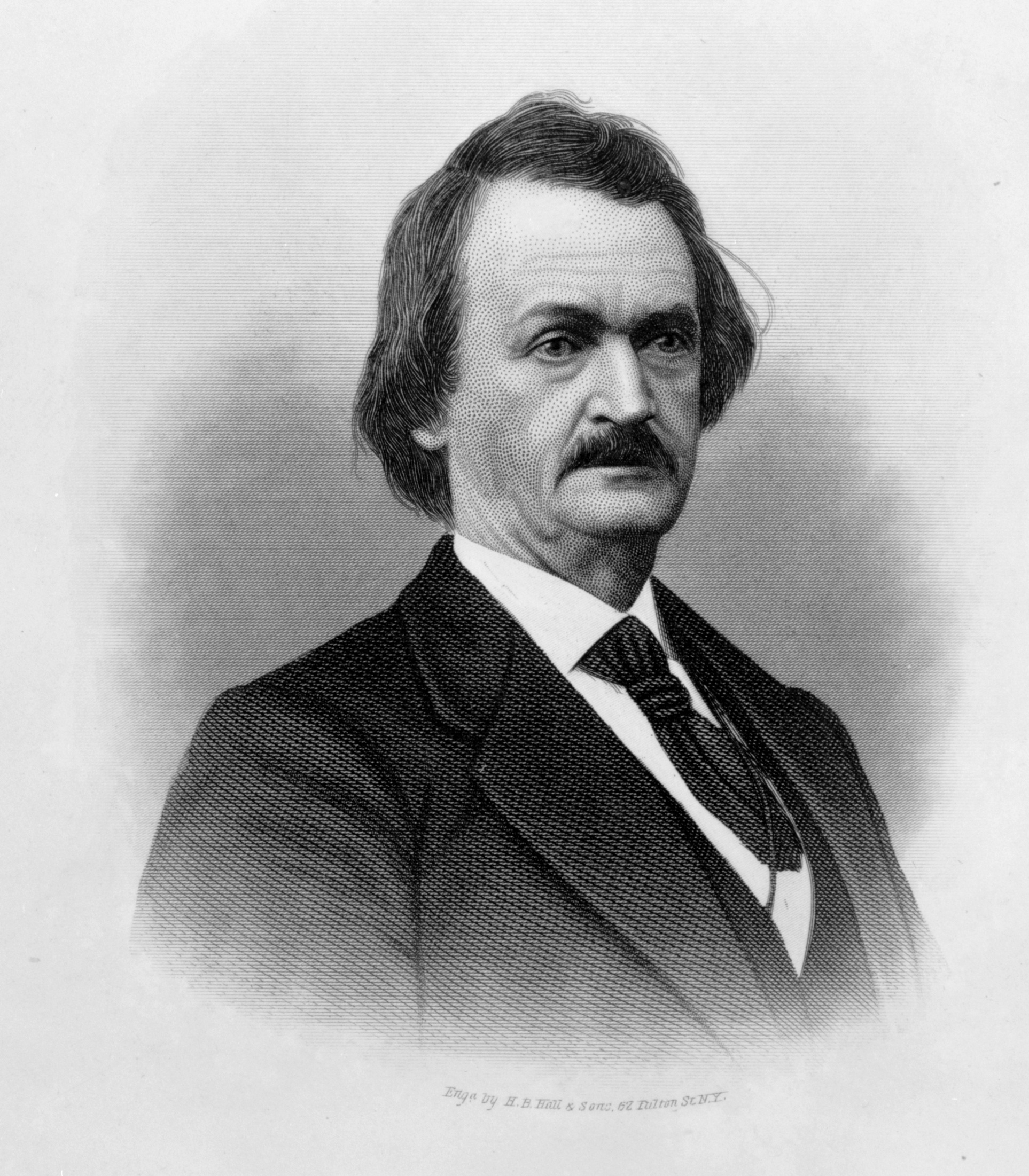 Lewis D. Campbell cropped from photo File:Lewis D Campbell.jpg